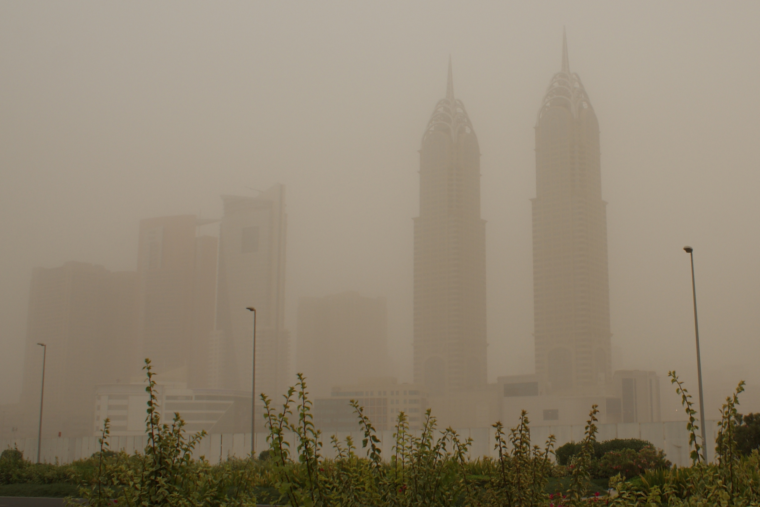 Dust storm in Dubai (Al Kazim Towers in the background)